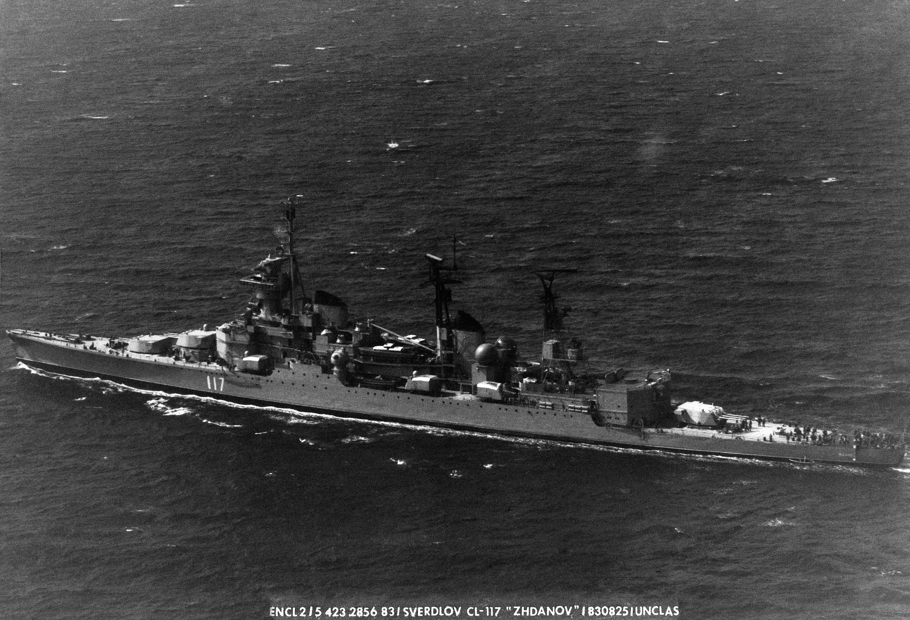 A port quarter view of the Soviet Sverdlov class command cruiser ZHDANOV underway.